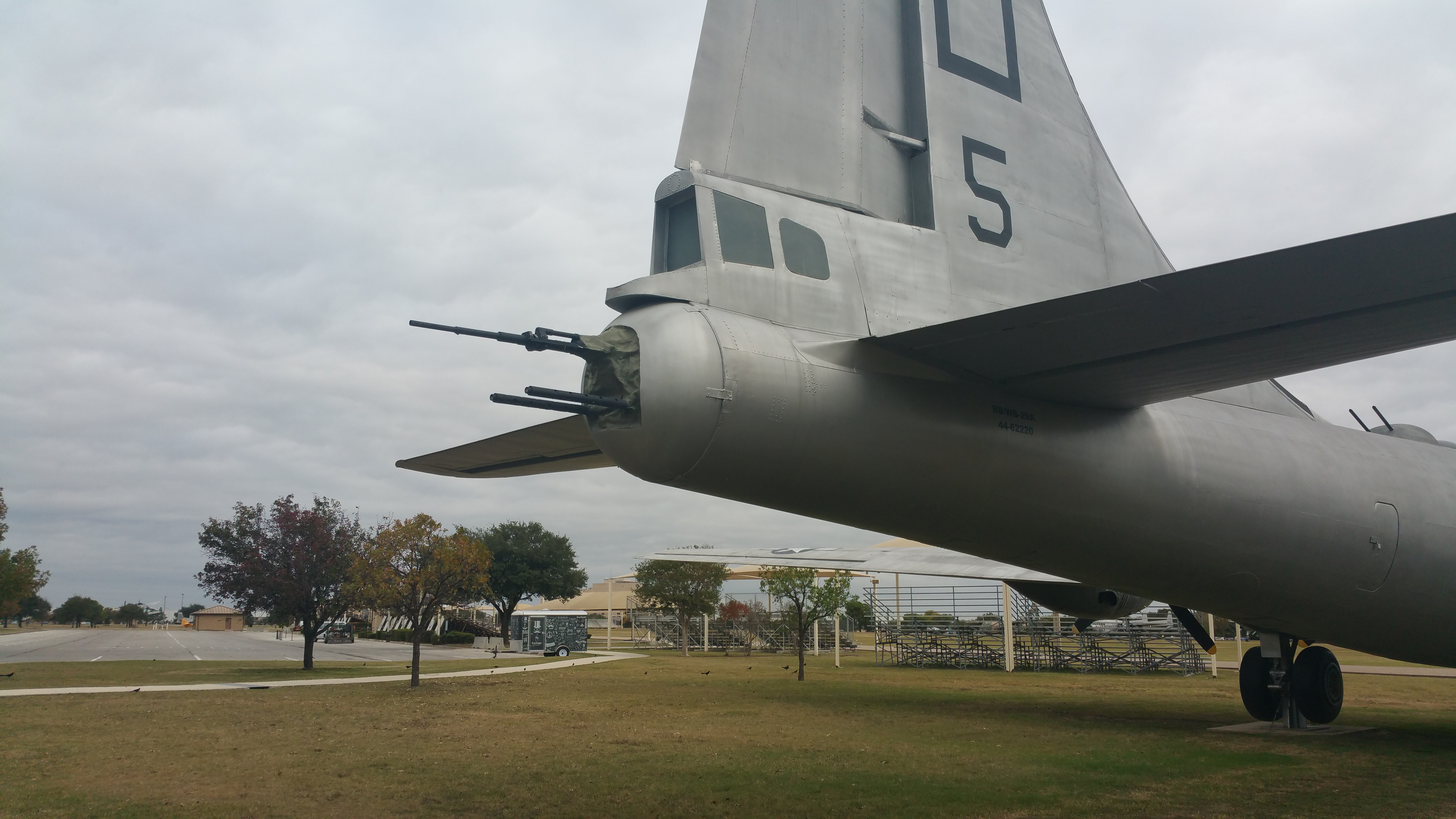 B-29 Superfortress at Lackland Air Force Base